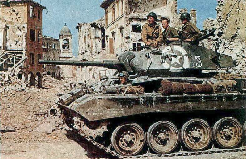 M24 Chaffee of the 81st Reconnaissance Squadron, 1st Armored Division passes through ruins of Vergato (Bologna, Italy) on 14 april 1945